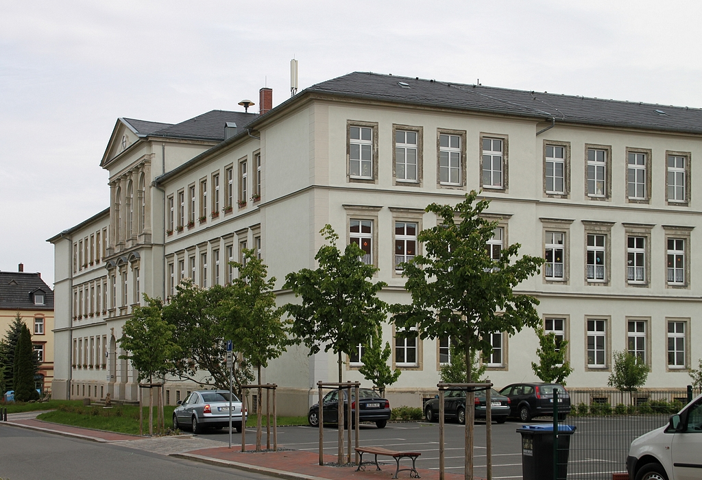 Leisnig, elemantary school, built 1873.